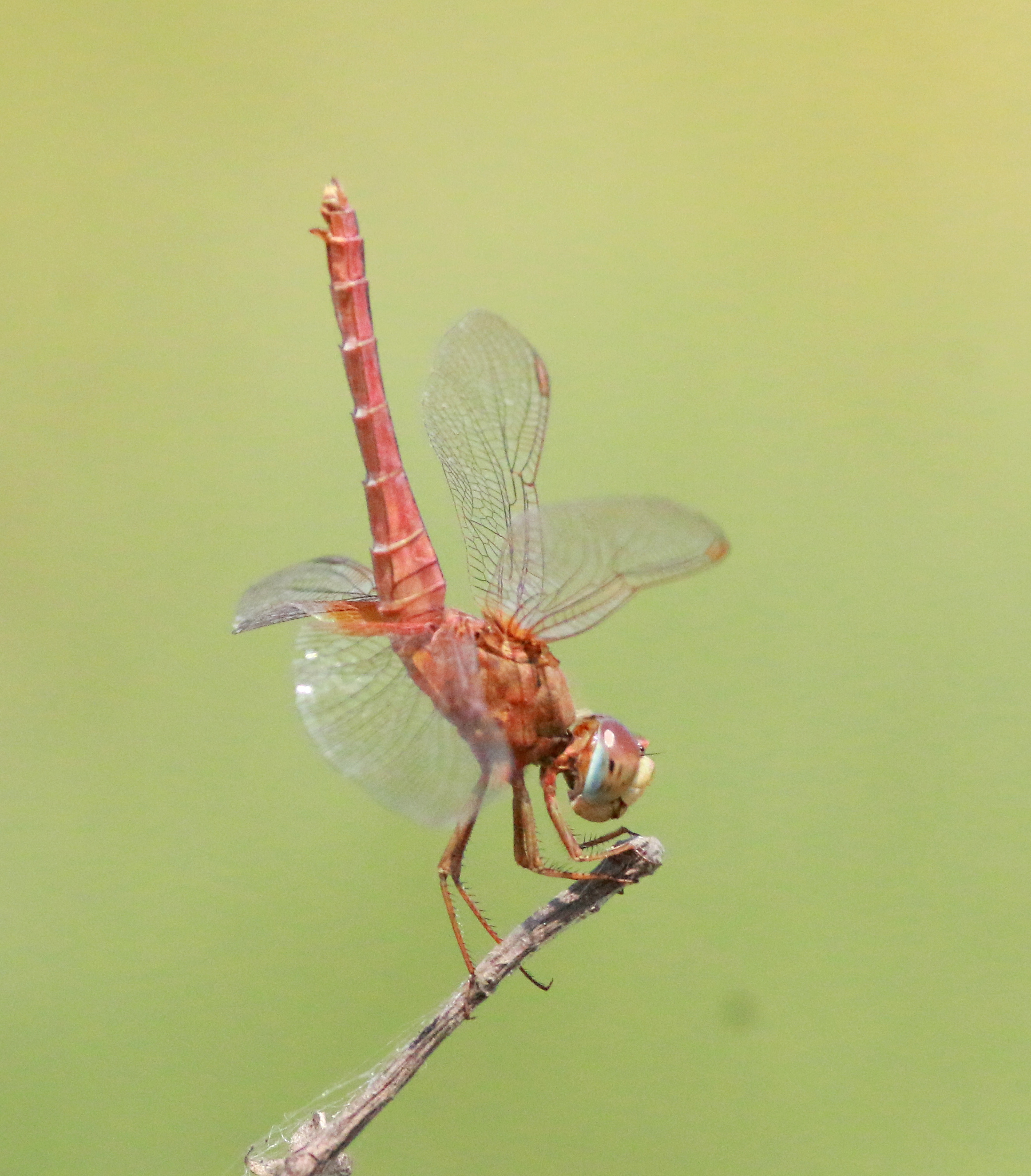 Scarlet skimmer, വയൽത്തുമ്പി Crocothemis servilia, andromorp female.